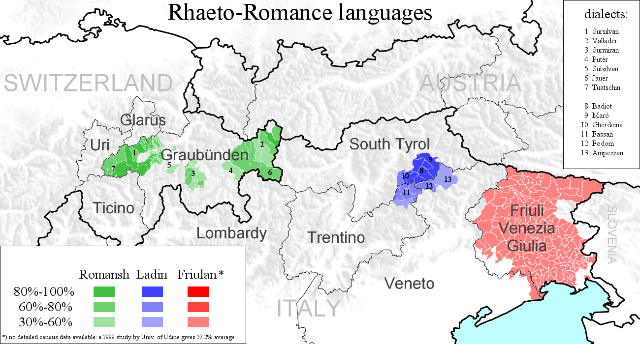 Detailed map of Rhaeto-Romance languages based on several sources (data collected 1998-2001). Please note that there are several differing concepts about what dialects in the Alps can be subsumed as Ladin. This map is based on a narrow understanding of that language, following Guntram A. Plangg: Ladinisch: Interne Sprachgeschichte I. Grammatik. In: Lexikon der Romanistischen Linguistik, III. Tübingen, Niemeyer 1989, ISBN 3-484-50250-9, p. 646–667 Colours: Green: Romansh Blue: Ladin Red: Friulan